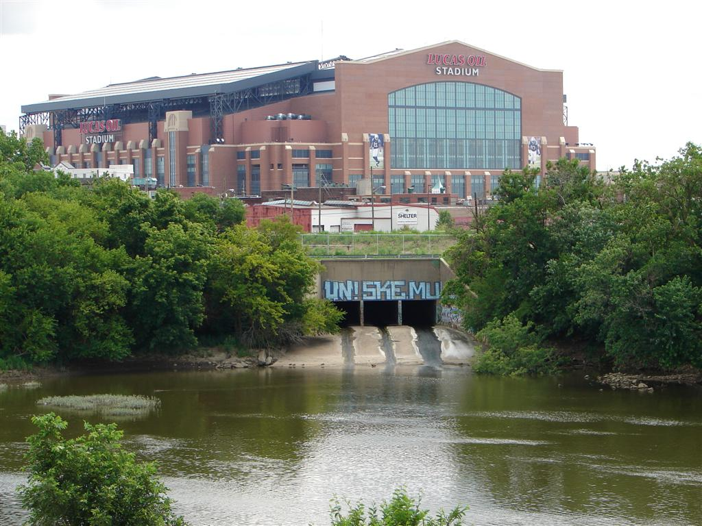 Confluence of Pogue's Run and the White River